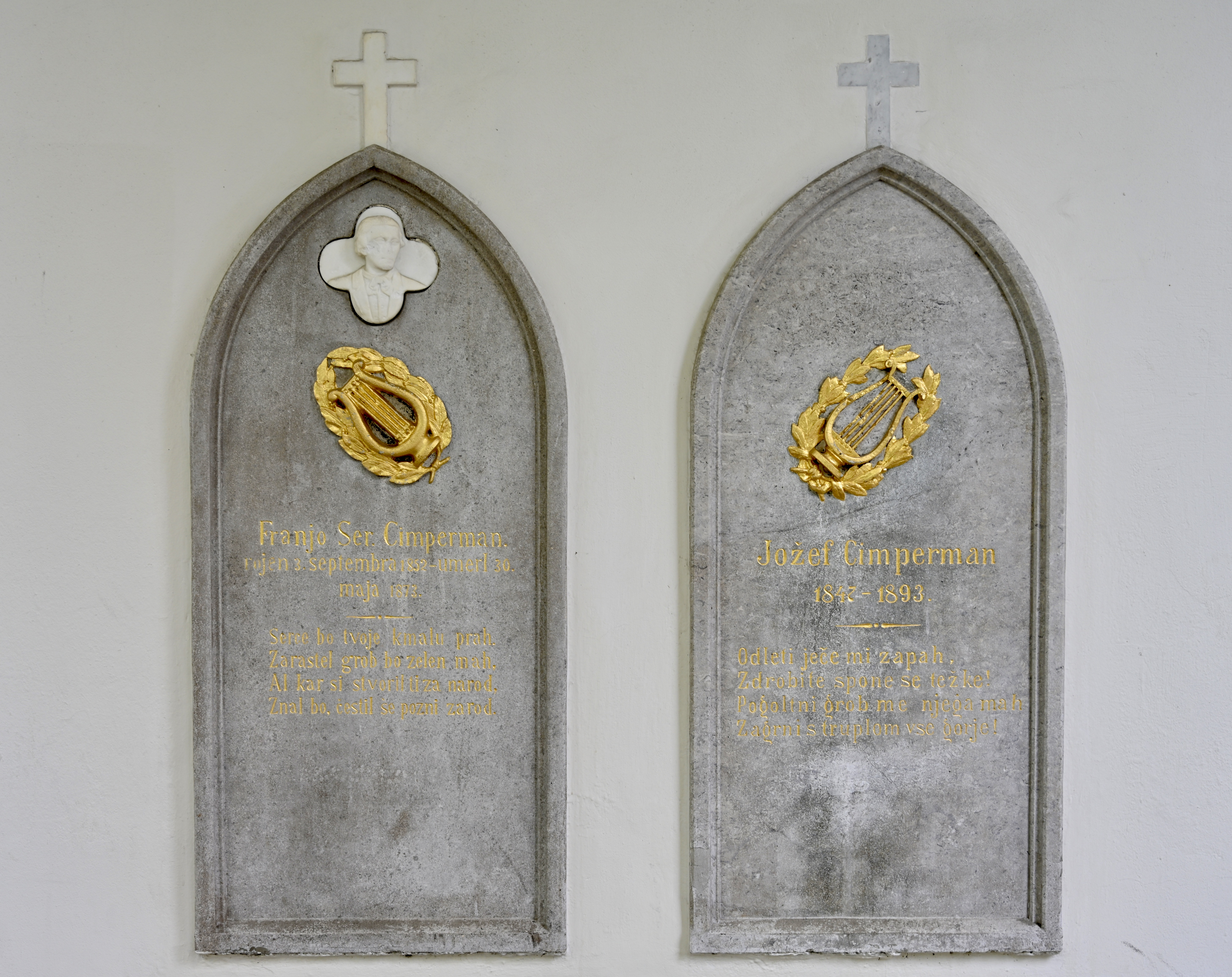 Gravestone of Franc Cimperman and Josip Cimperman at Navje, Ljubljana